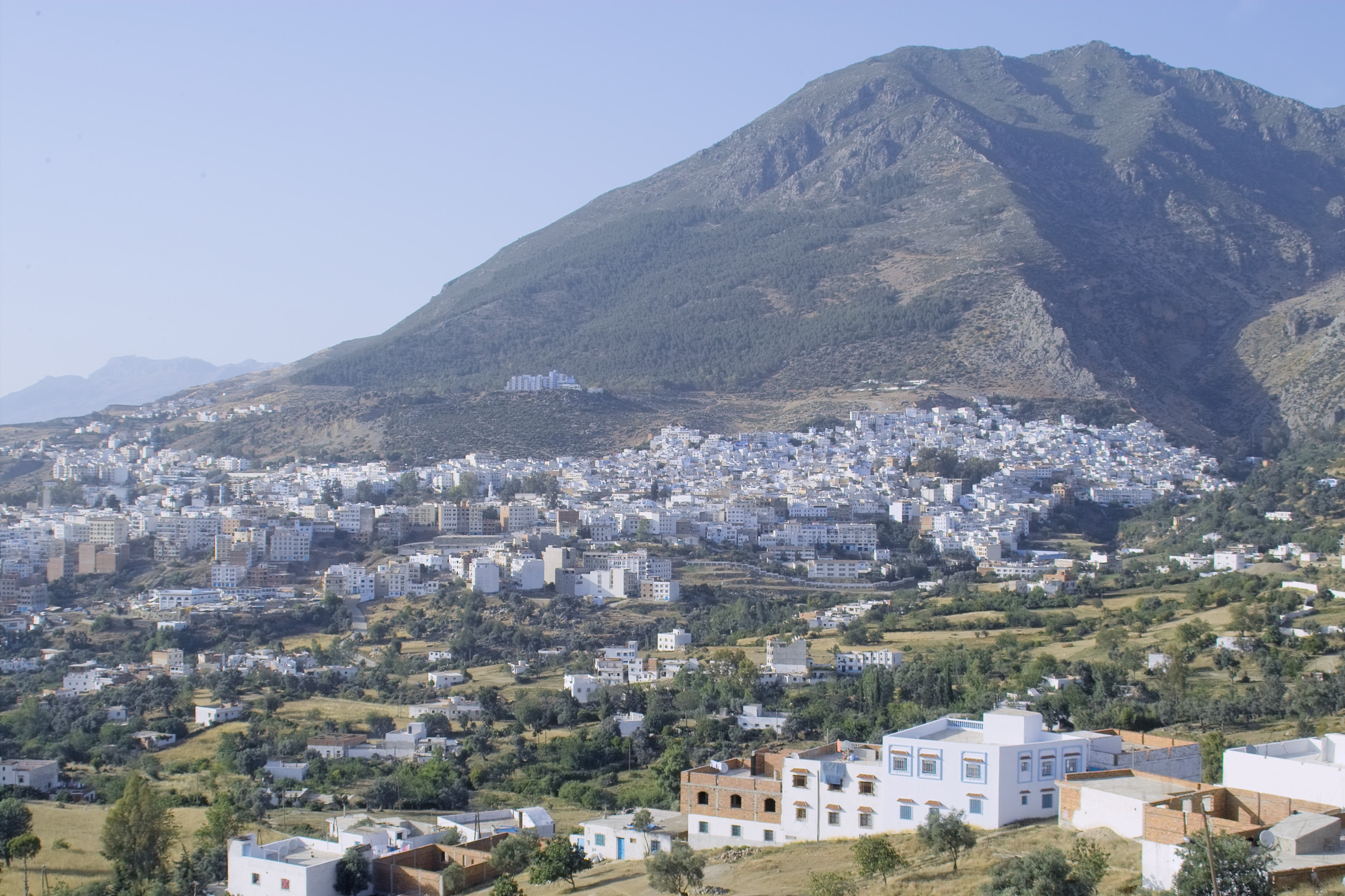 View of Chefchaoun, city in Morocco.